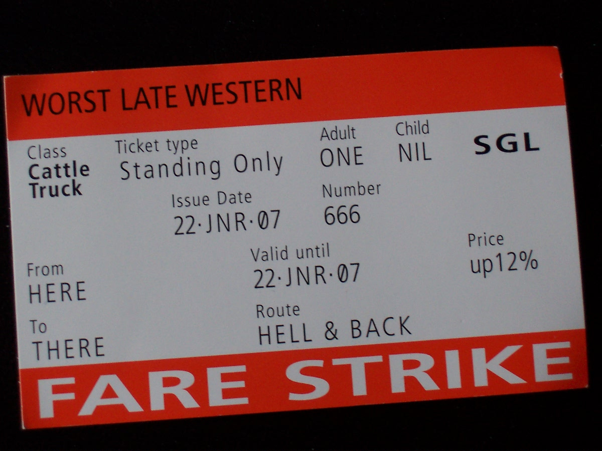 Fake ticket distributed freely by fare strike movement and reproduced freely in press and TV.